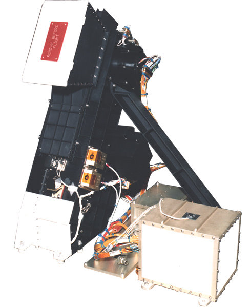 SSULI Instrument and supporting Electronics